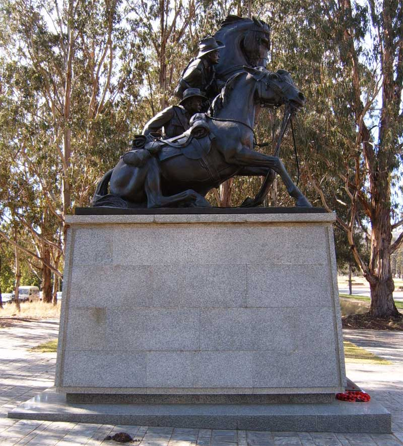 Mounted Memorial on ANZAC Parade, the principal ceremonial amd memorial avenue of Canberra, the national capital city of Australia.